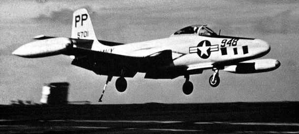 The U.S. Navy McDonnell F2H-2P Banshee (BuNo 125701) from Photographic Reconnaissance Squadron 61 (VFP-61) Det.M "Eyes of the Fleet" landing aboard the aircraft carrier USS Ticonderoga (CVA-14). VFP-61 Det.M was assigned to Carrier Air Group 9 (CVG-9) aboard the Ticonderoga for a deployment to the Western Pacific from 16 September 1957 to 25 April 1958.